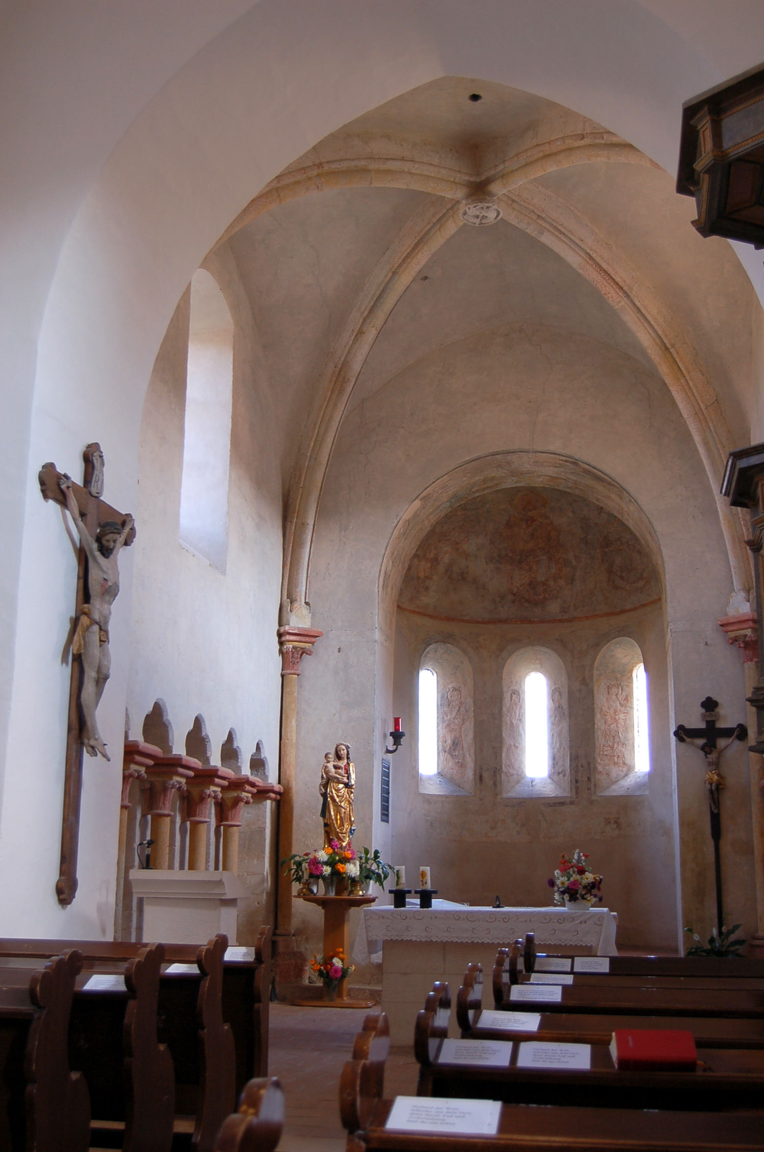 Interior of the romanesque church of Michelstetten.